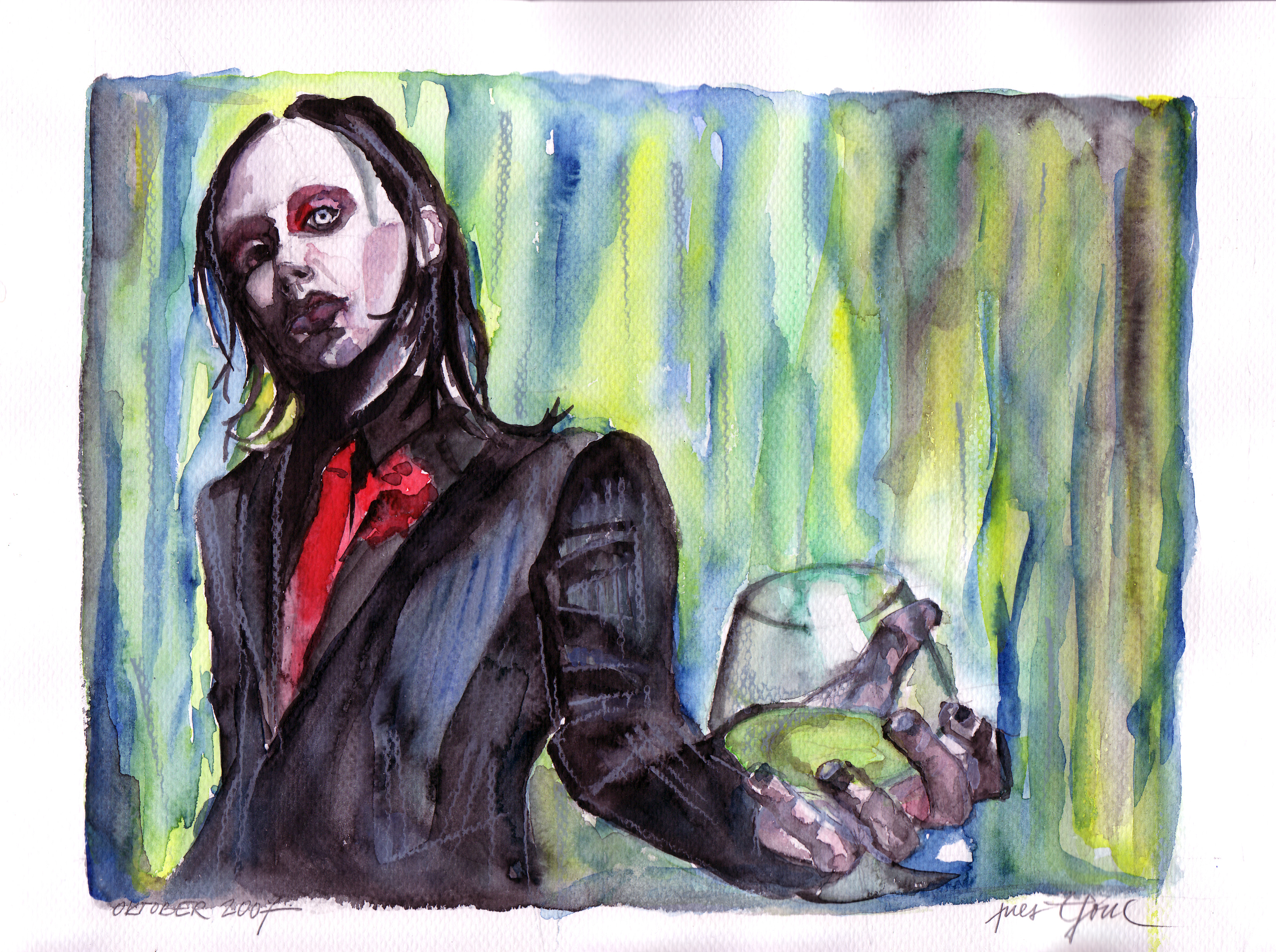 Portrait, Marilyn Manson with a glass of Absinthe, watercolour